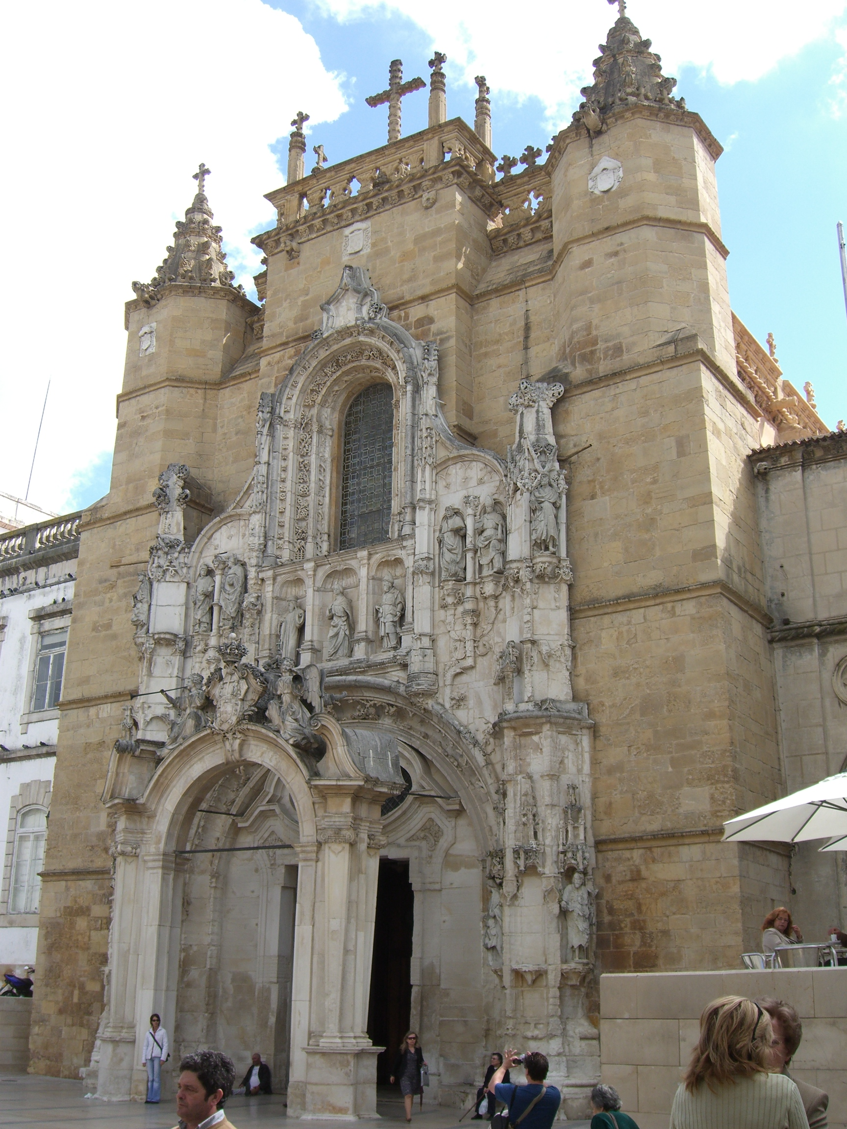 This file was uploaded for Wiki Loves Monuments in Portugal with the unique identifier 69813.